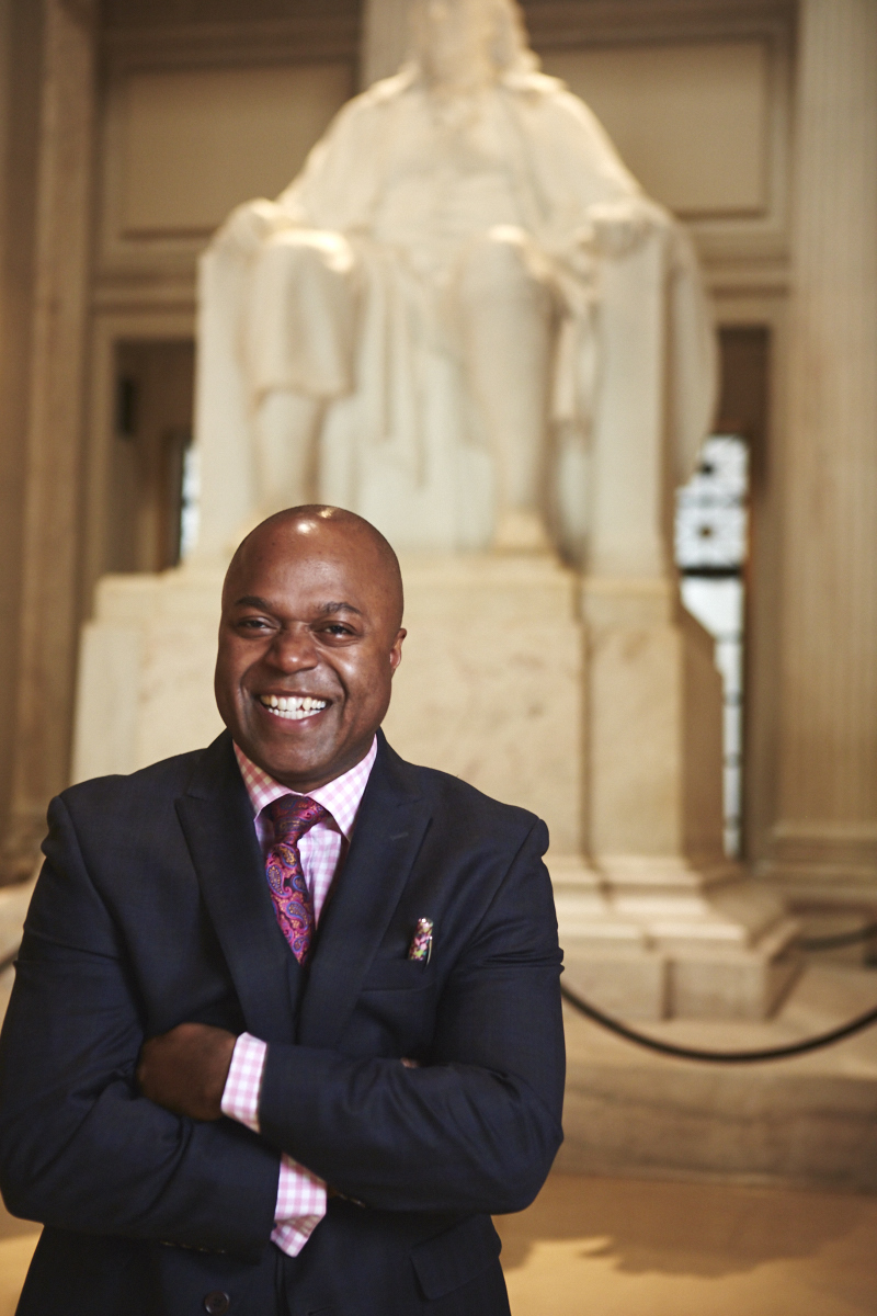 Photo